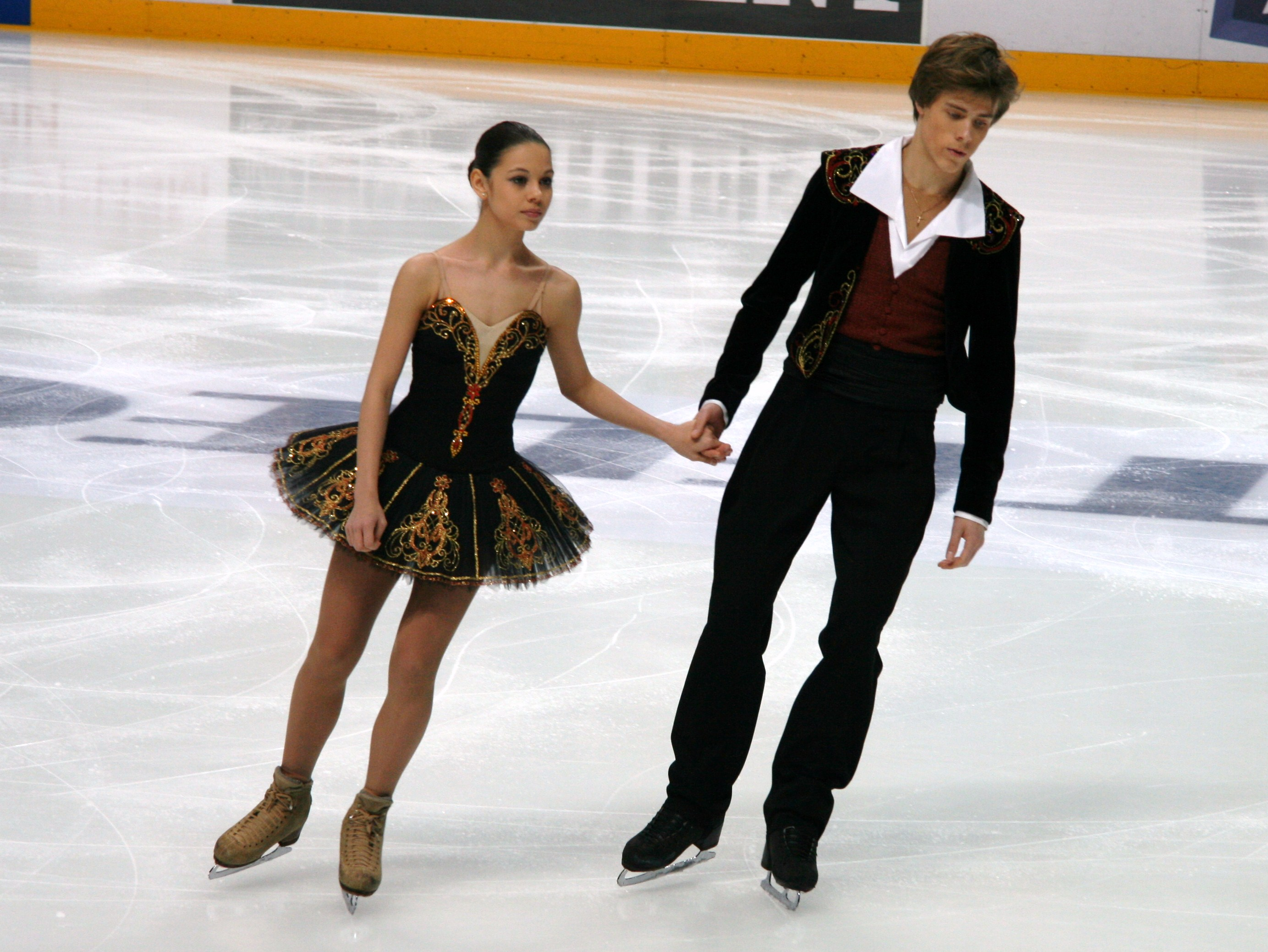 Elena Ilinykh and Nikita Katsalapov at the 2010 Cup of Russia